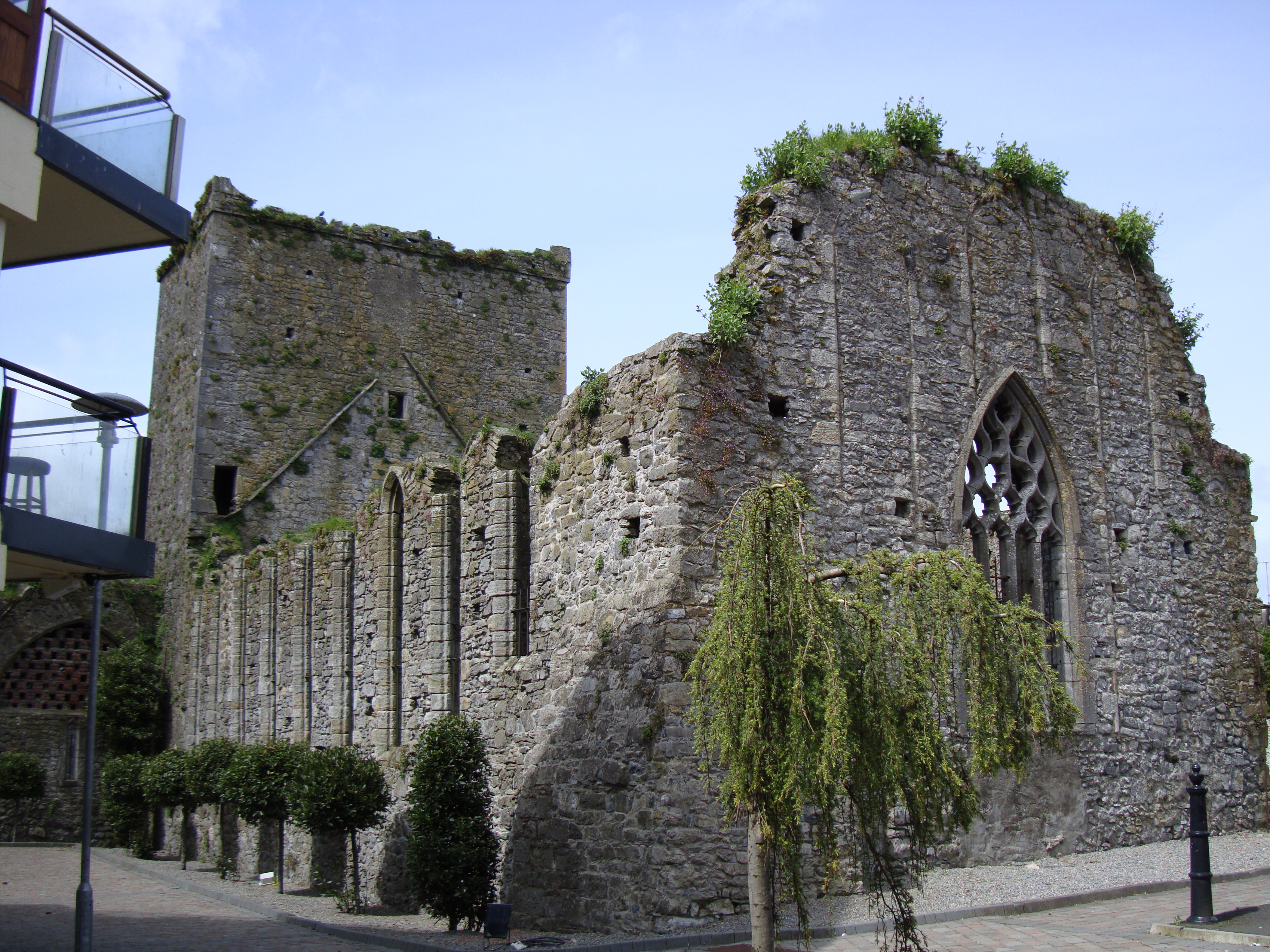 Photograph of the Dominican Friary, Cashel, Co. Tipperary, Republic of Ireland